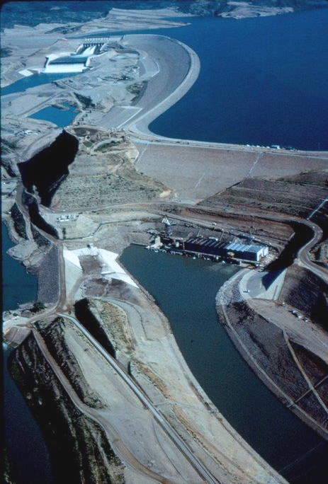 Aerial View of Mangla Dam, Pakistan